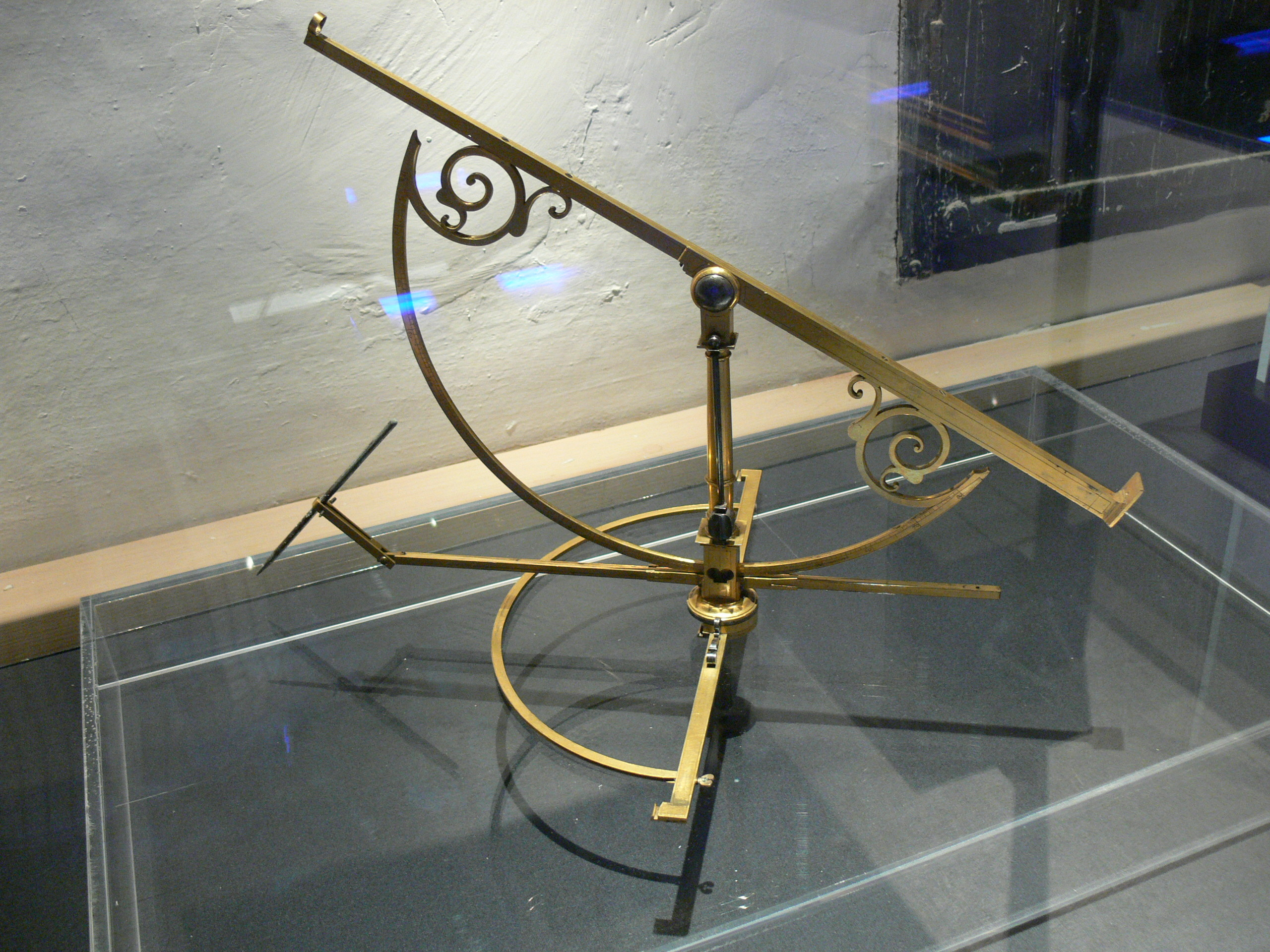 Instrument for perspective drawings by Jobst Bürgi, Kassel 1604 ( Kunsthistorisches Museum Vienna, Art collections, Inv.-Nr. KK 788 )